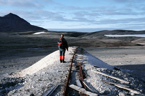 Remnants of old mining ground ( from beginning of 20th century) on northern slope of Antarcticfjellet on Bjoernoeya, July 2002, by Michael Haferkamp